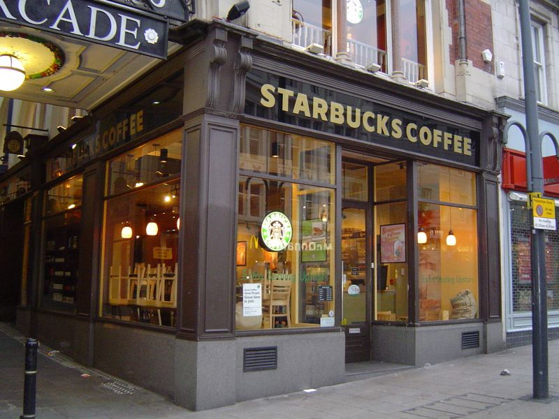 A Starbucks coffee shop in Leeds.